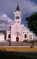 catedral